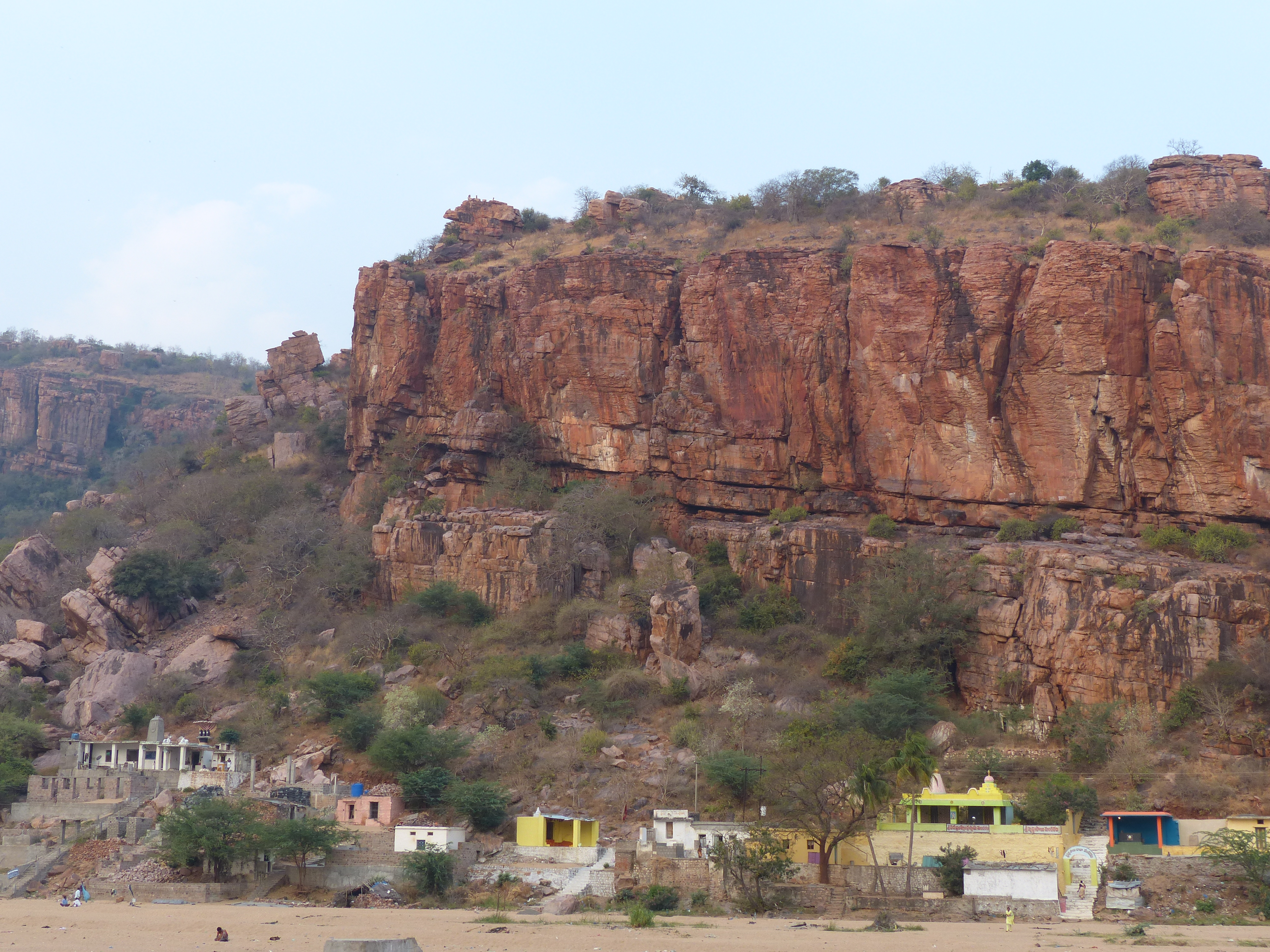 Small temples on the bank of river Papagni opposite to the main temple of Lord Hanuman